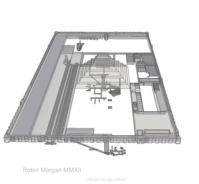 Transparent view of a 3d model of Djoser's complex at Saqqara